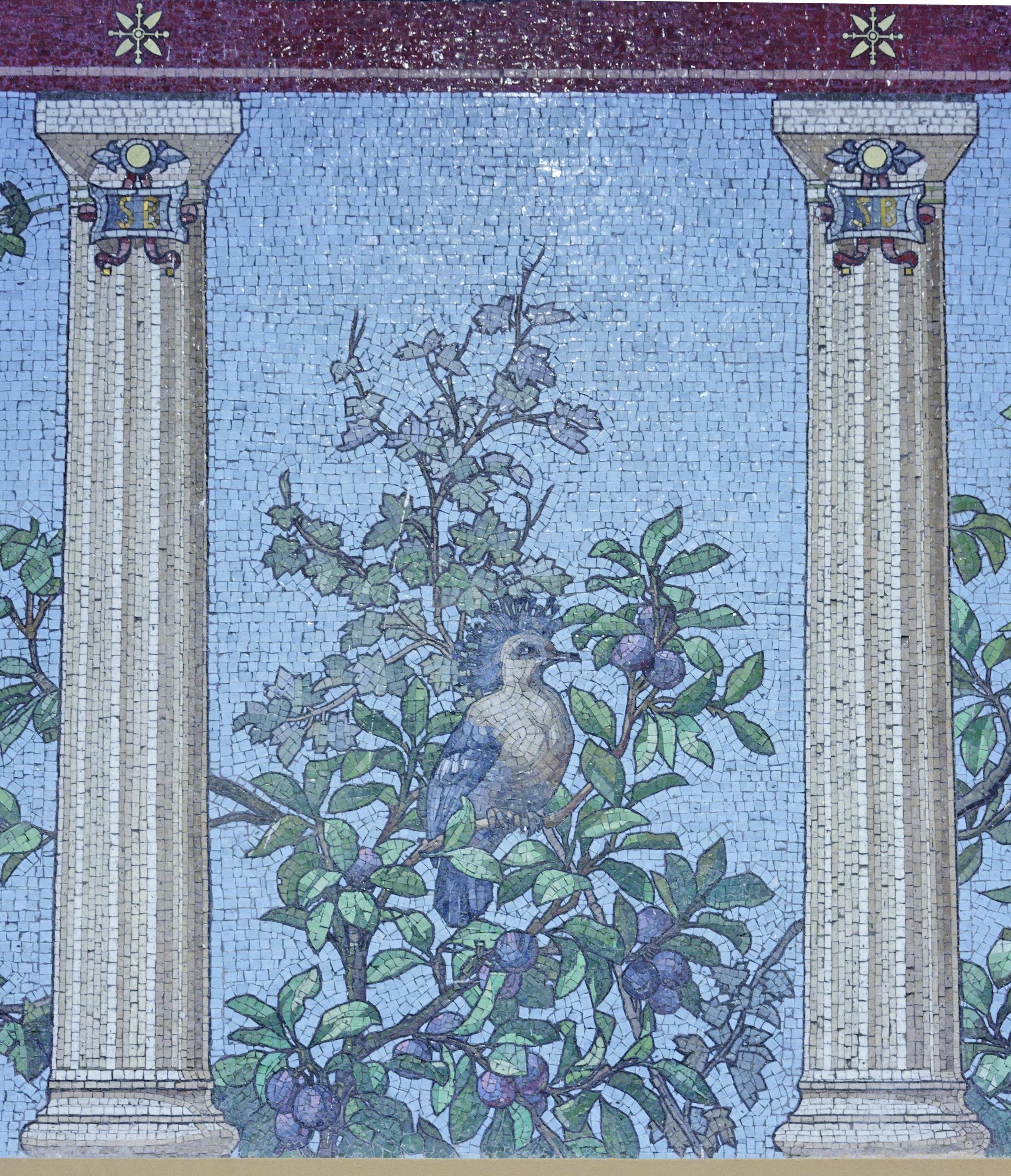 Mosaic by Giandomenico Facchina (1826-1904). Dining hall room of the Sainte-Barbe library, Paris.